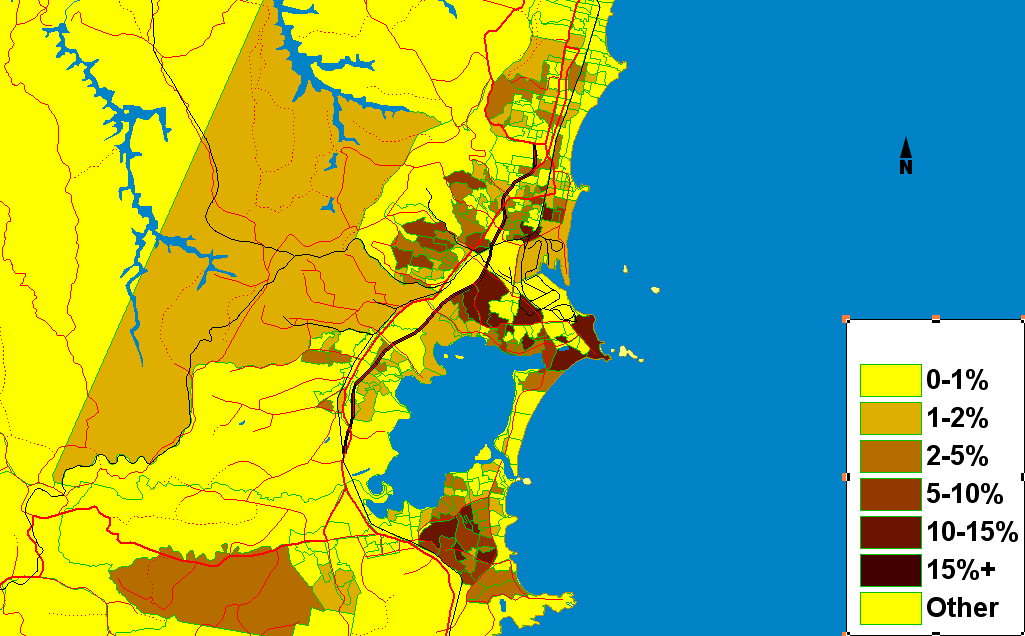 Proportion of persons who speak Macedonian at home out of total population in each Census District in Wollongong, 2006 Census